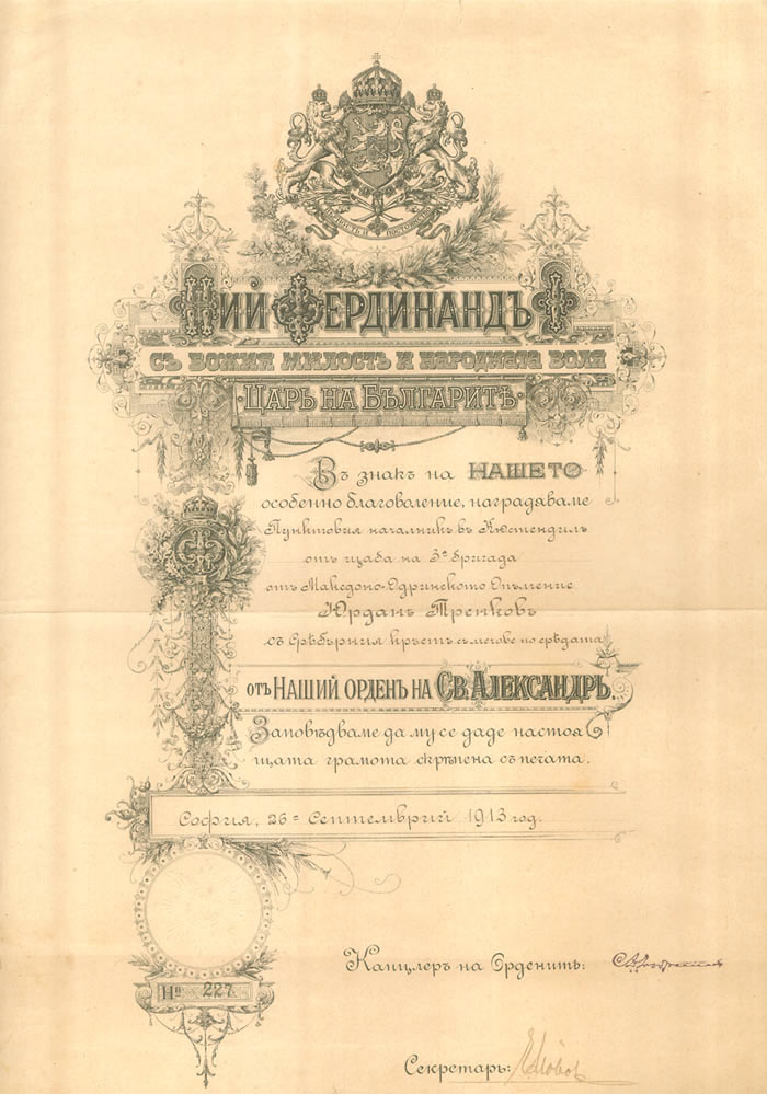 Saint Alexander Order Diploma of Yordan Trenkov.